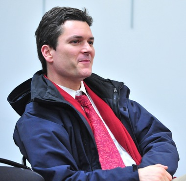 Stephen Lange Ranzini taken February 5, 2014